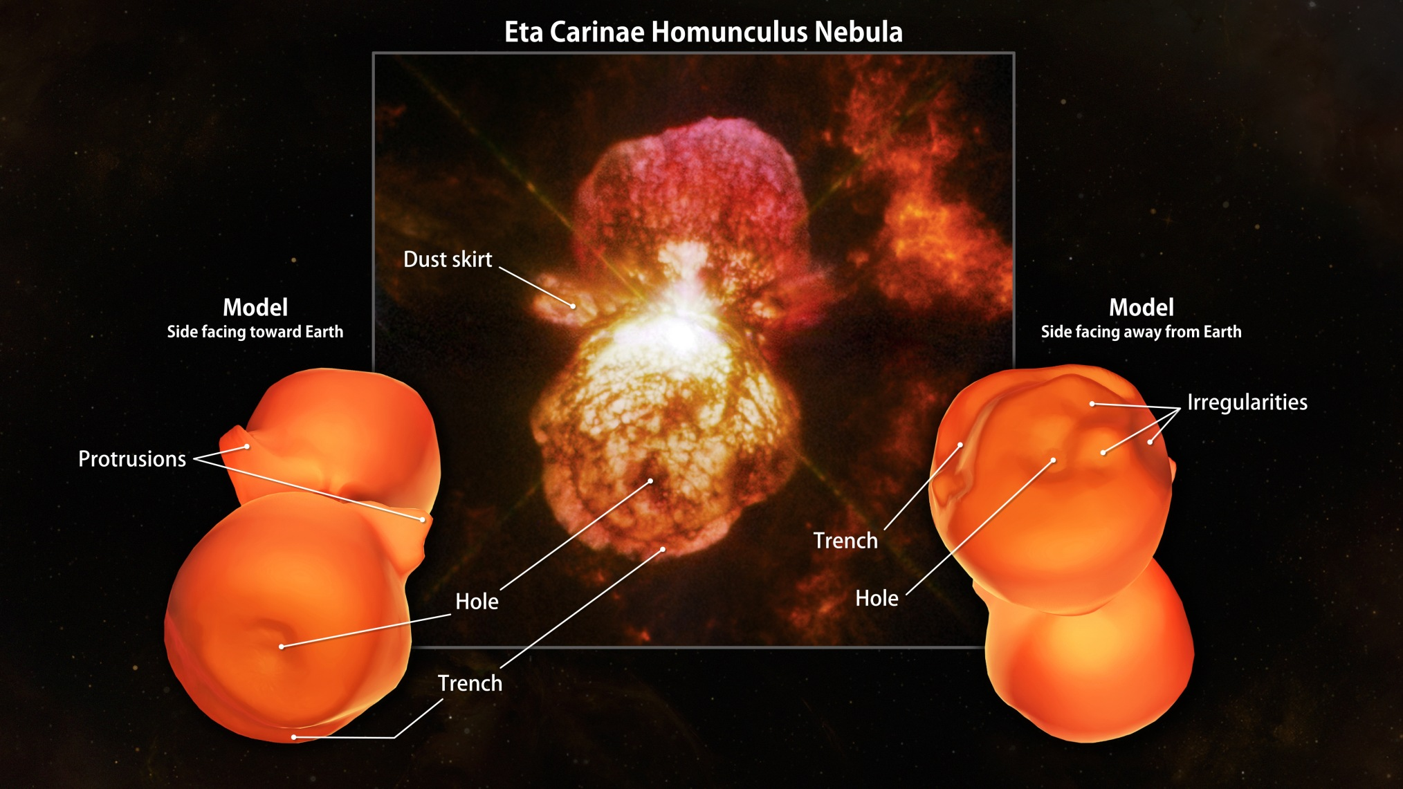 If you're looking for something to print with that new 3D printer, try out a copy of the Homunculus Nebula. The dusty, bipolar cosmic cloud is around 1 light-year across but is slightly scaled down for printing to about 1/4 light-nanosecond or 80 millimeters. The full scale Homunculus surrounds Eta Carinae, famously unstable massive stars in a binary system embedded in the extensive Carina Nebula about 7,500 light-years distant. Between 1838 and 1845, Eta Carinae underwent the Great Eruption becoming the second brightest star in planet Earth's night sky and ejecting the Homunculus Nebula. The new 3D model of the still expanding Homunculus was created by exploring the nebula with the European Southern Observatory's VLT/X-Shooter. That instrument is capable of mapping the velocity of molecular hydrogen gas through the nebula's dust at a fine resolution. It reveals trenches, divots and protrusions, even in the dust obscured regions that face away from Earth. Eta Carinae itself still undergoes violent outbursts, a candidate to explode in a spectacular supernova in the next few million years.